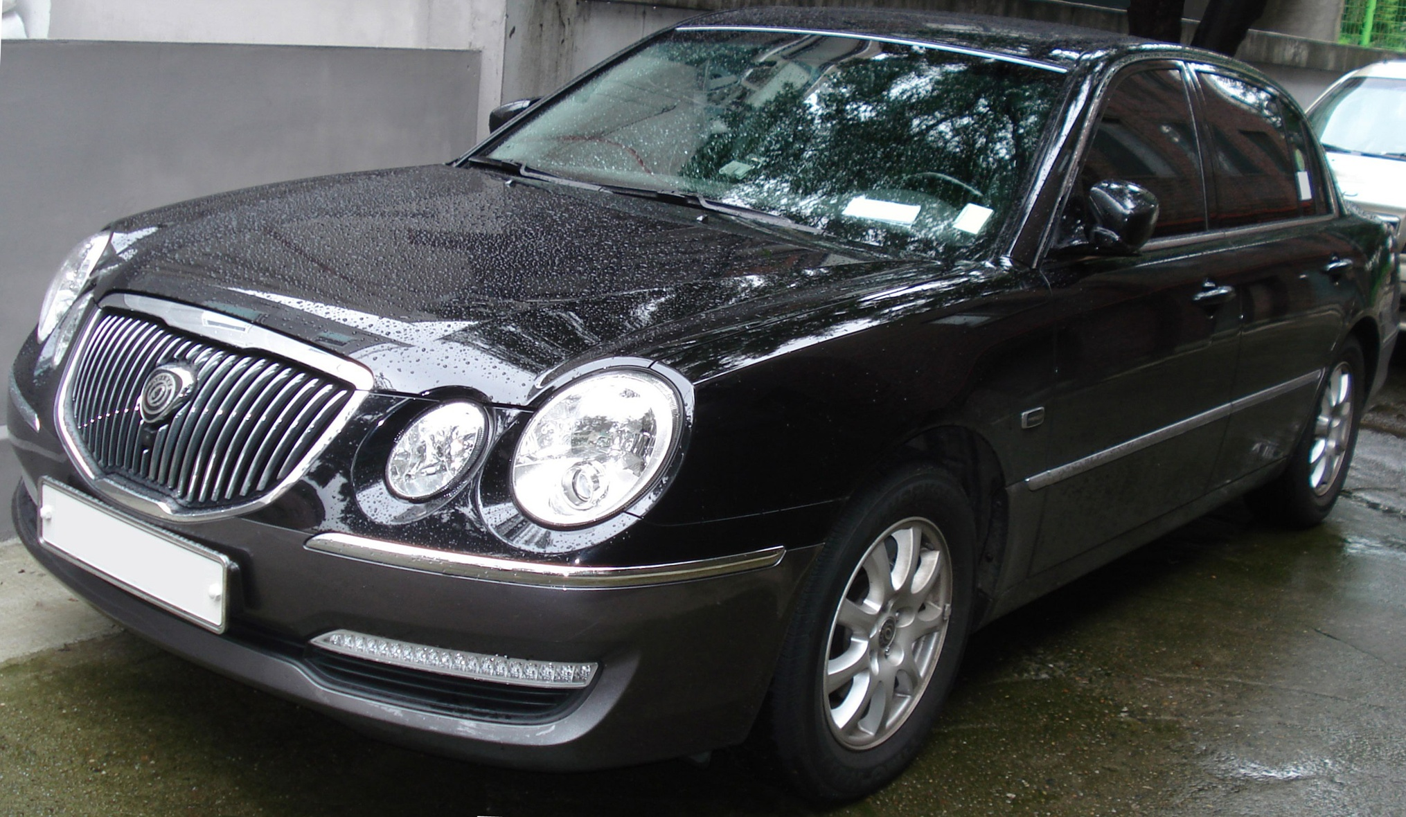 Kia Opirus Premium